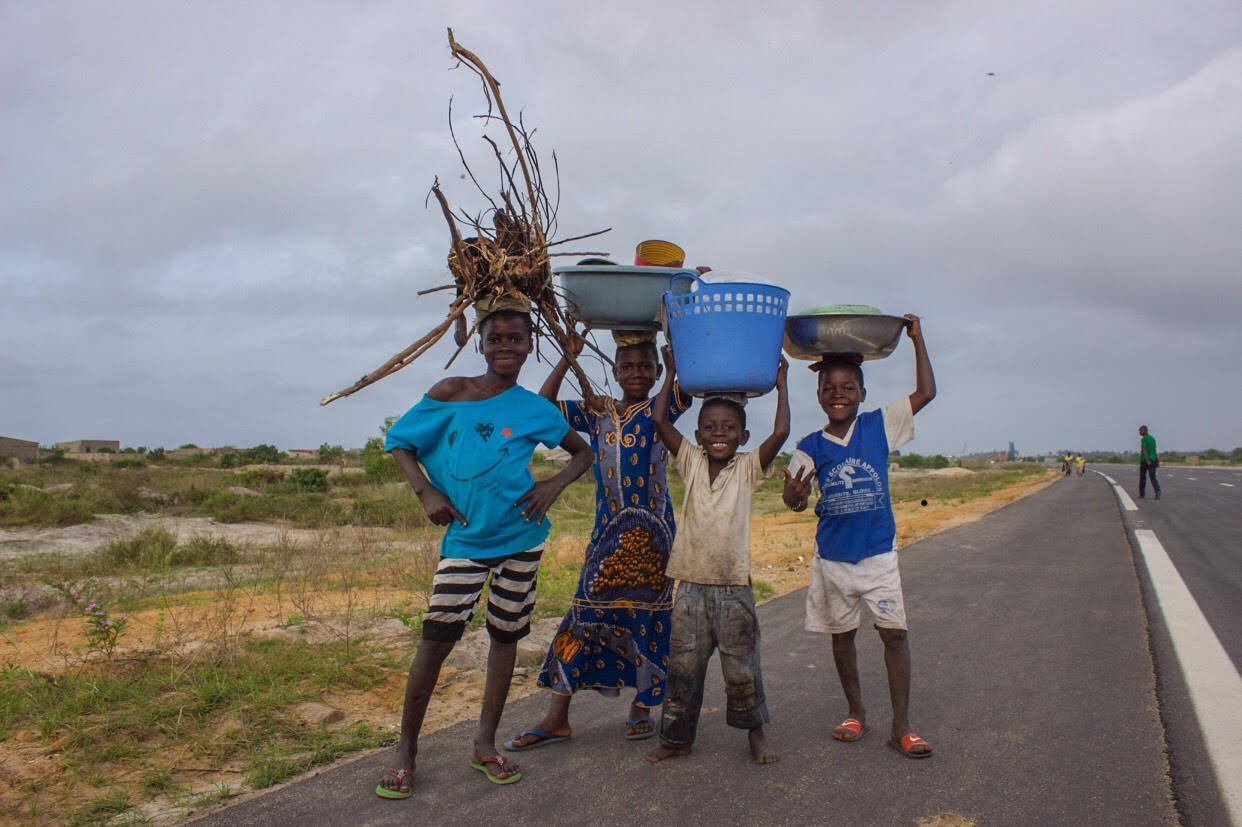 Childrens selling items This is an image of "African people at work" from Ivory Coast